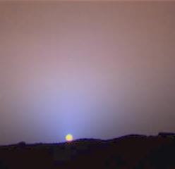 Sunset on Mars as imaged by Mars Pathfinder. This is a close-up of the sunset on Sol 24 as seen by the Imager for Mars Pathfinder. The red sky in the background and the blue around the Sun are approximately as they would appear to the human eye. The color of the Sun itself is not correct — the Sun was overexposed in each of the 3 color images that were used to make this picture. The true color of the Sun itself may be near white or slightly bluish. Mars Pathfinder is the second in NASA's Discovery program of low-cost spacecraft with highly focused science goals. The Jet Propulsion Laboratory, Pasadena, CA, developed and manages the Mars Pathfinder mission for NASA's Office of Space Science, Washington, D.C. JPL is a division of the California Institute of Technology (Caltech). The Imager for Mars Pathfinder (IMP) was developed by the University of Arizona Lunar and Planetary Laboratory under contract to JPL. Peter Smith is the Principal Investigator.